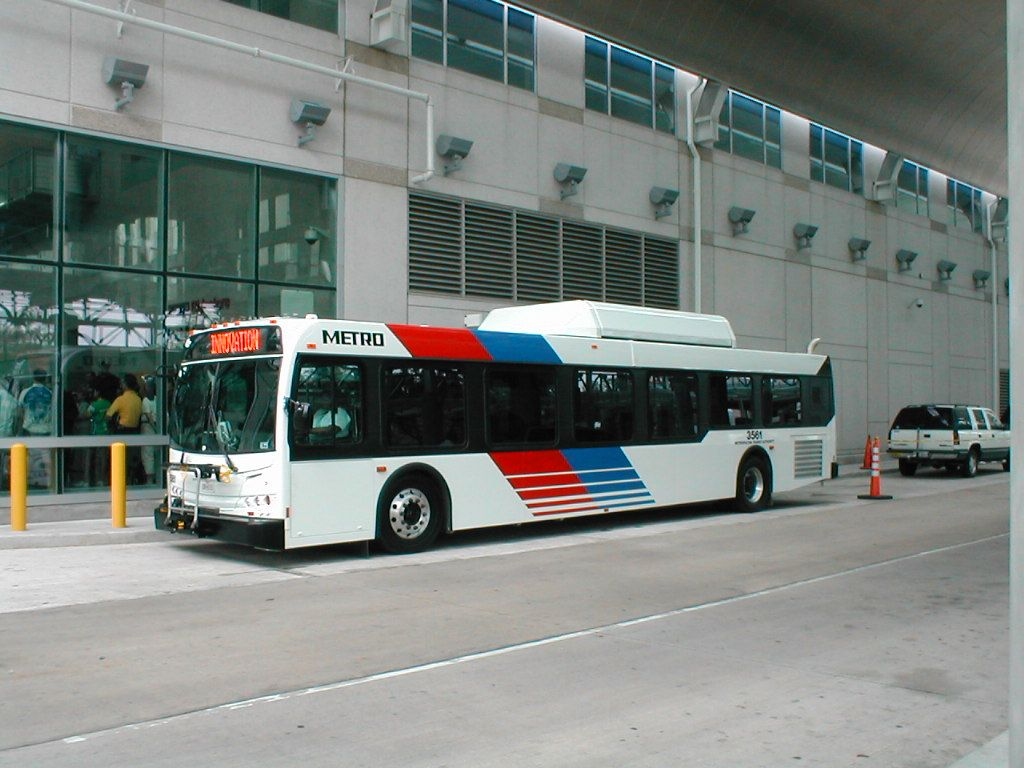 A Houston Metro New Flyer DE41LFR bus